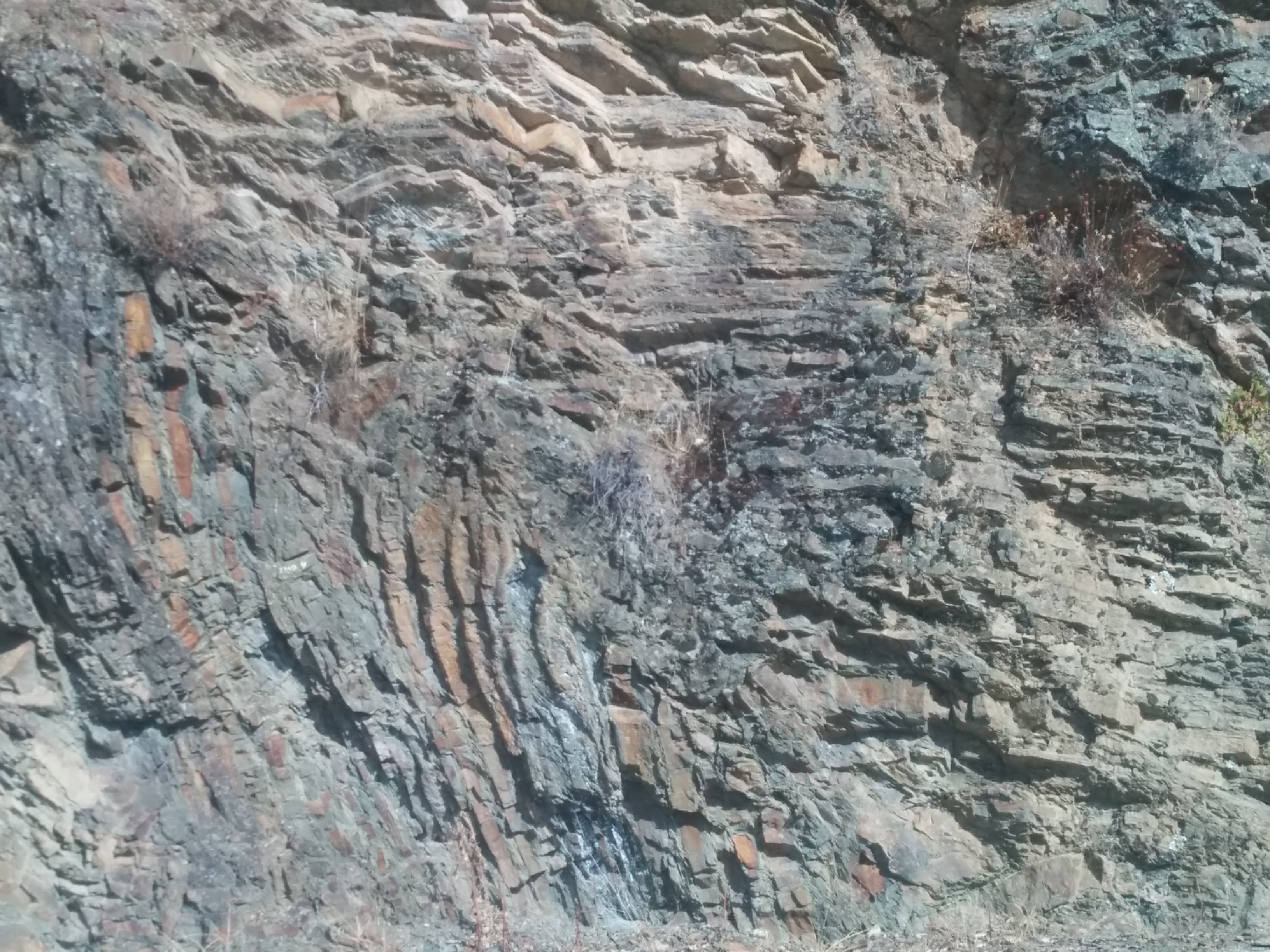 Precambrian formation Pizarras de Narcea in Barrios de Luna, León, Spain